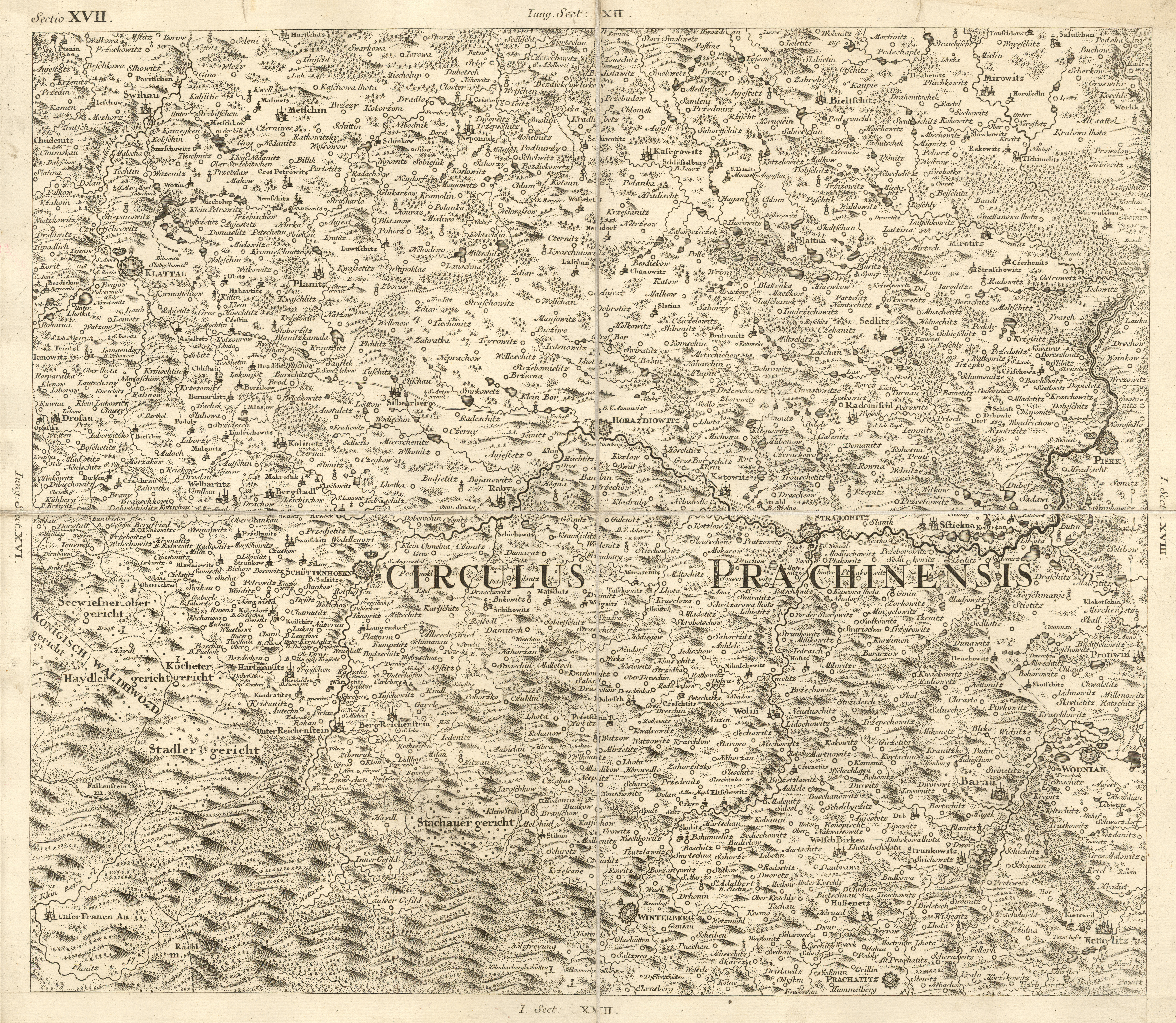 Müller's map of Bohemia.